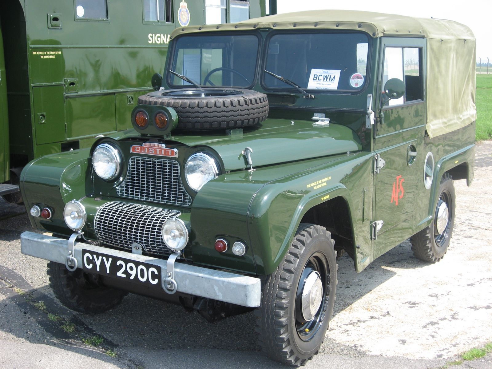 1965 Austin Gipsy.